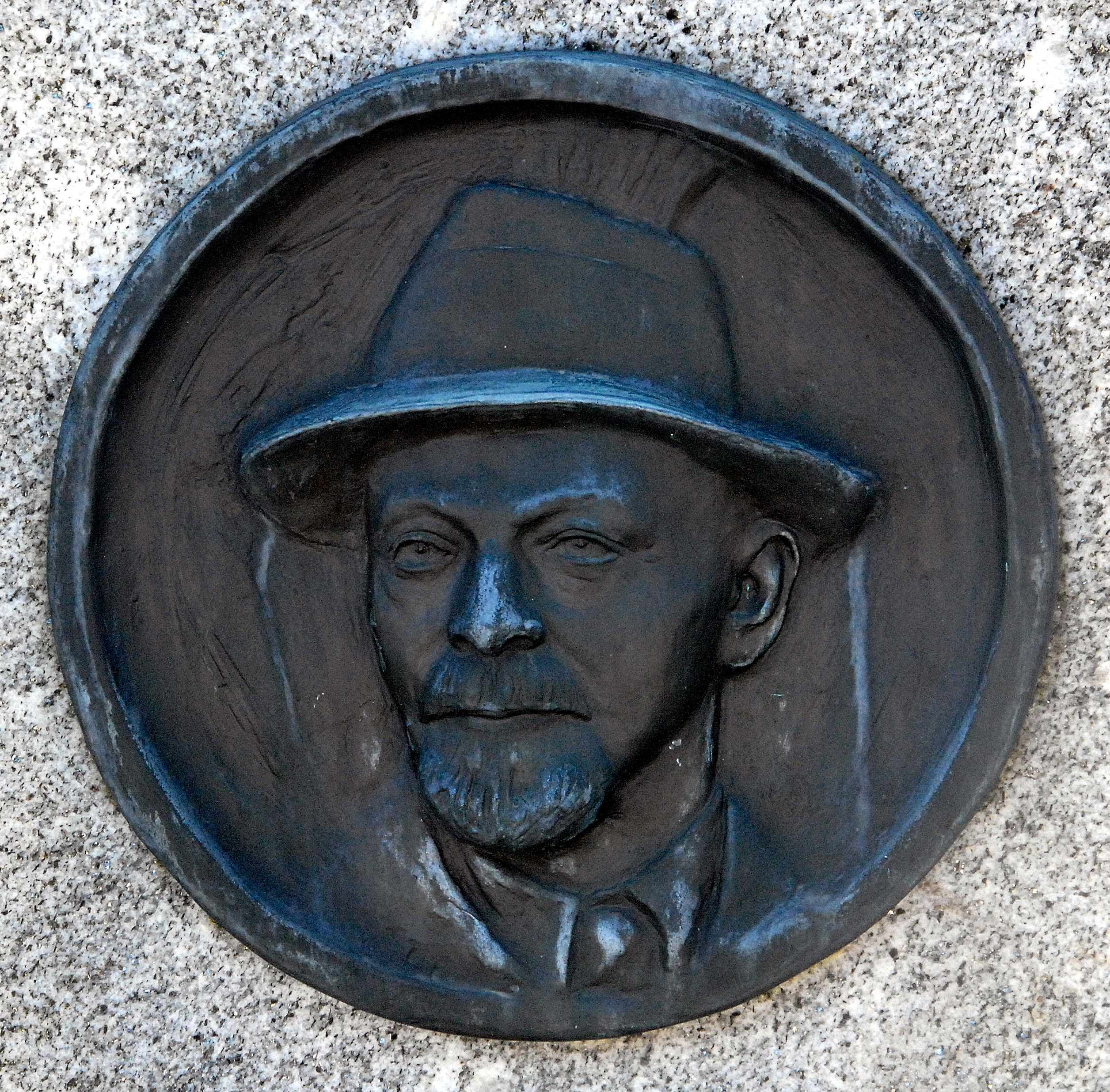 Portrait medaillon on the tombstone of Franz Baumgartner´s grave at the cemetery, market town Velden am Wörthersee, district Villach Land, Carinthia, Austria, EU